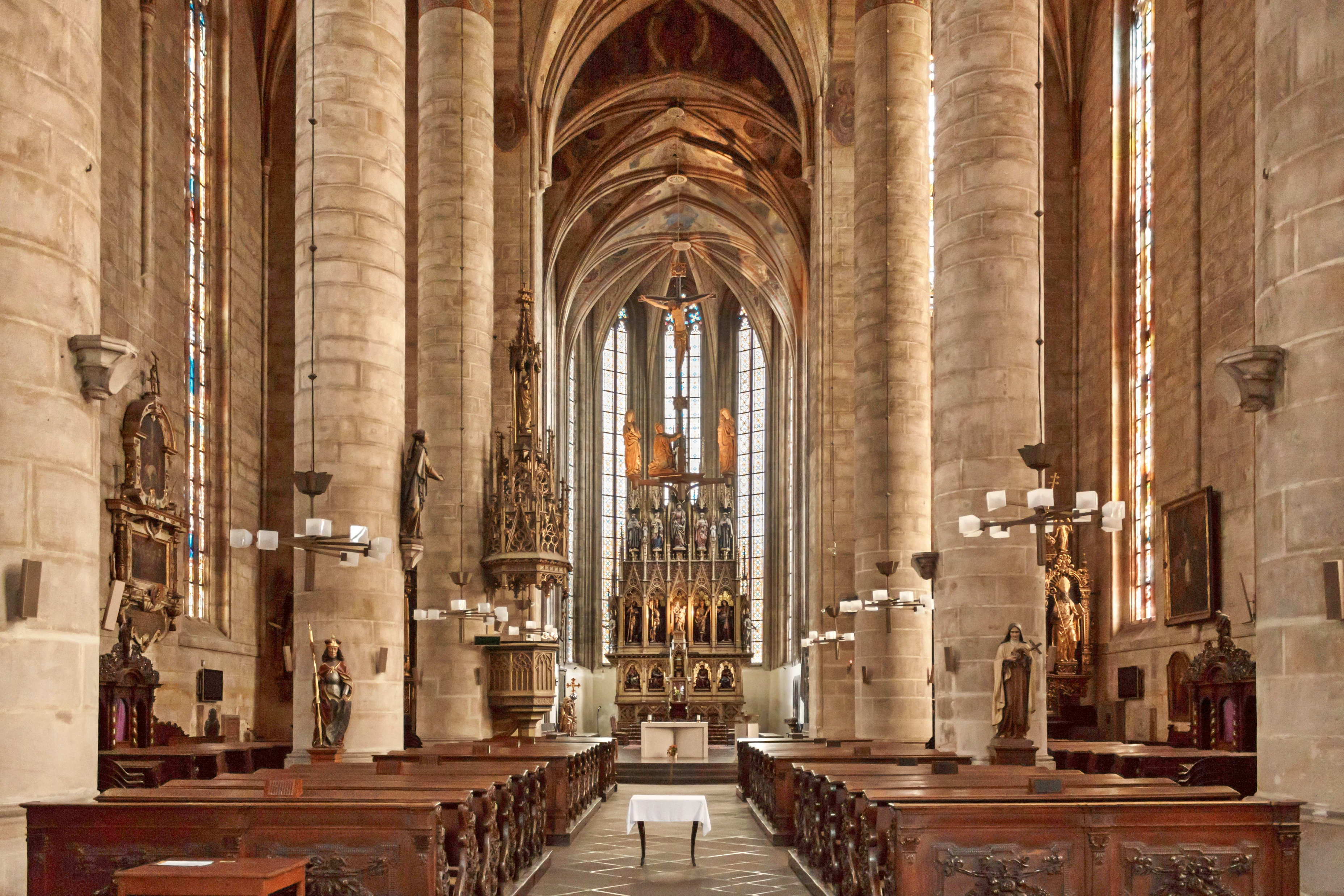 Interior of the cathedral